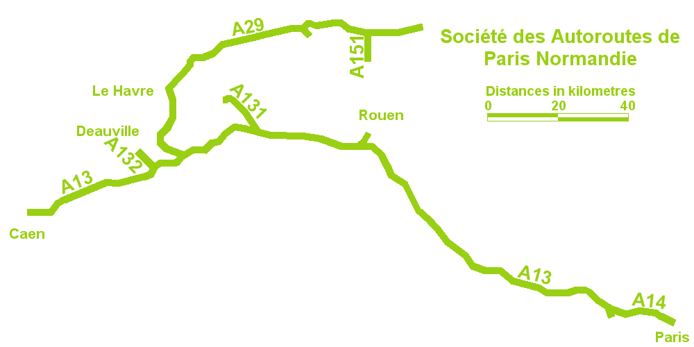 Author: Gregory Deryckère Source: Own work Date: 28th August 2006